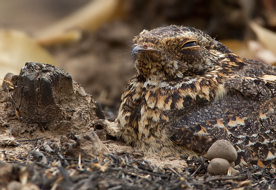 Standard-winged Nightjar, taken in the Gambia